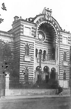 Choral Synagogue in Minsk